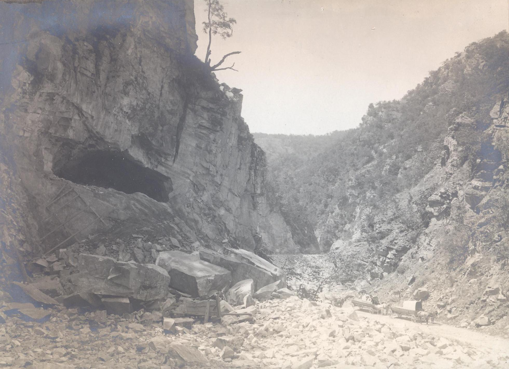 Septemvri-Dobrinishte narrow gauge line building, Bulgaria, km 13+100 the 1920's.